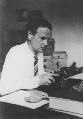 Portrait of German author Gustav Regler, taken in his study. Picture created by his wife Marie-Louise Regler. Picture taken 1944 (day/month unknown) in Mexico.